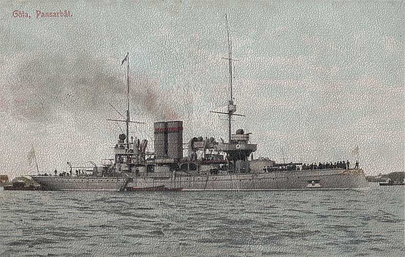 An old postcard of the Swedish battleship HMS Göta.